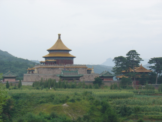 Pule Temple of Chengde, Hebei